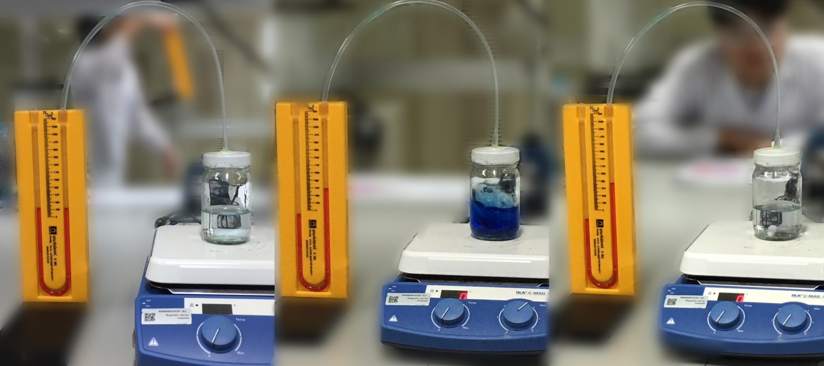 Air is consumed